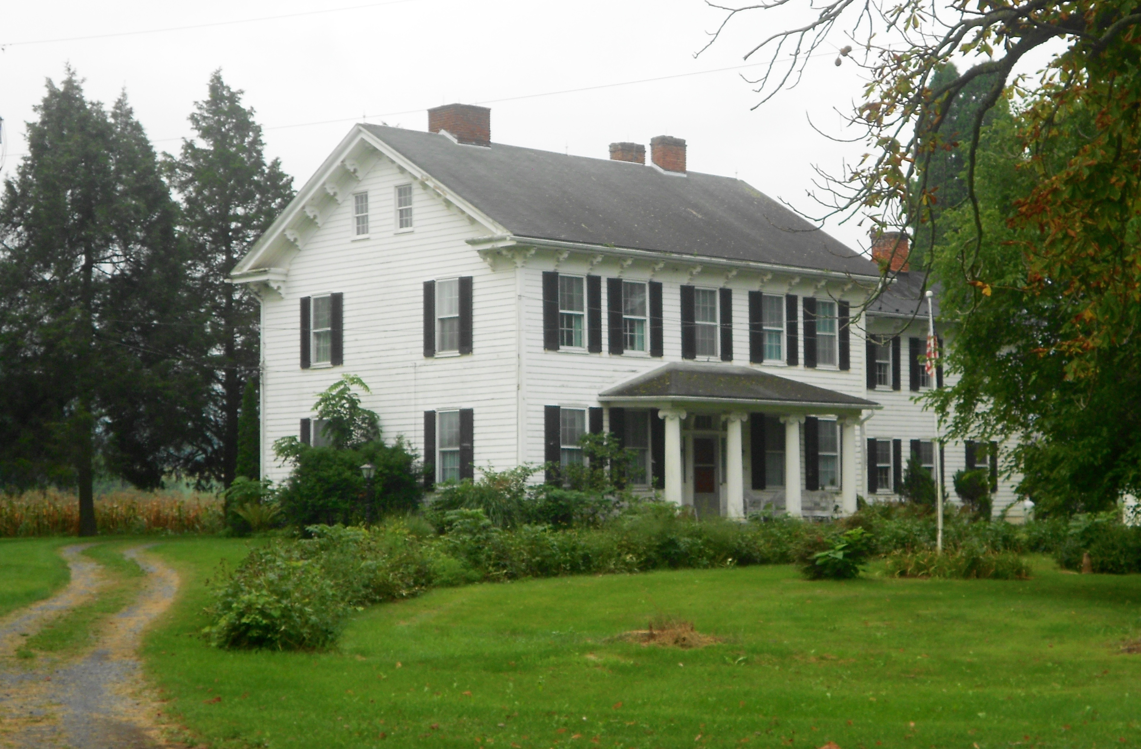 Bucher Ayres Farm listed on the NRHP on December 1, 1980 Southwest of Pine Grove Mills on Whitehall Road, Pennsylvania Furnace, Ferguson Township, Centre County, Pennsylvania